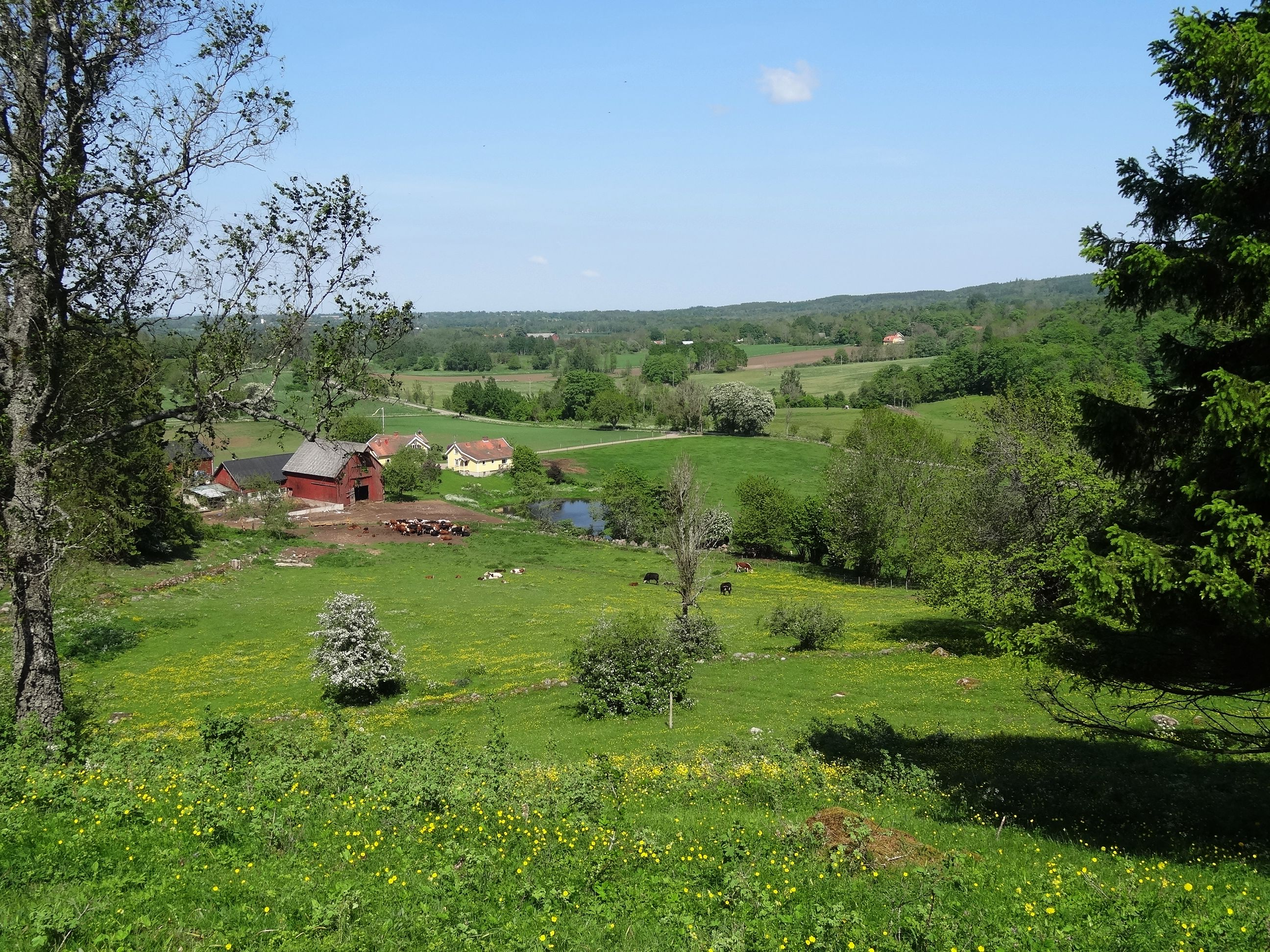 View from Lycke-Lilla Höjen nature reserv, west of the mountain Billingen, Västra Götaland, Sweden.